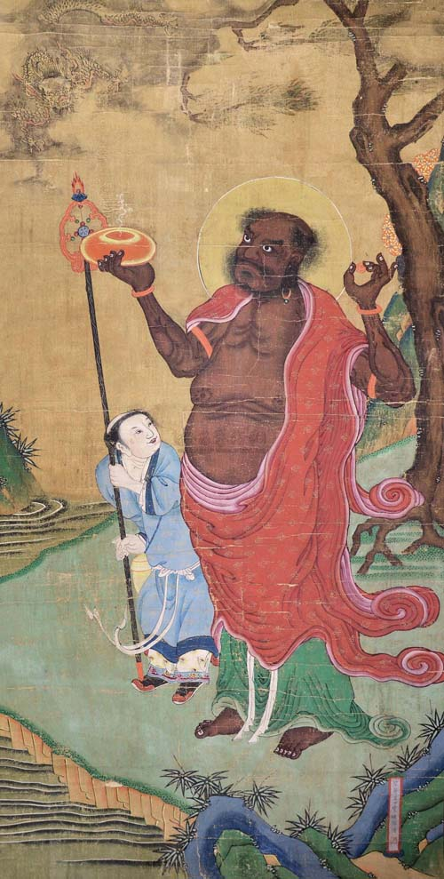 Painting of Arhats by Ding Yunpeng